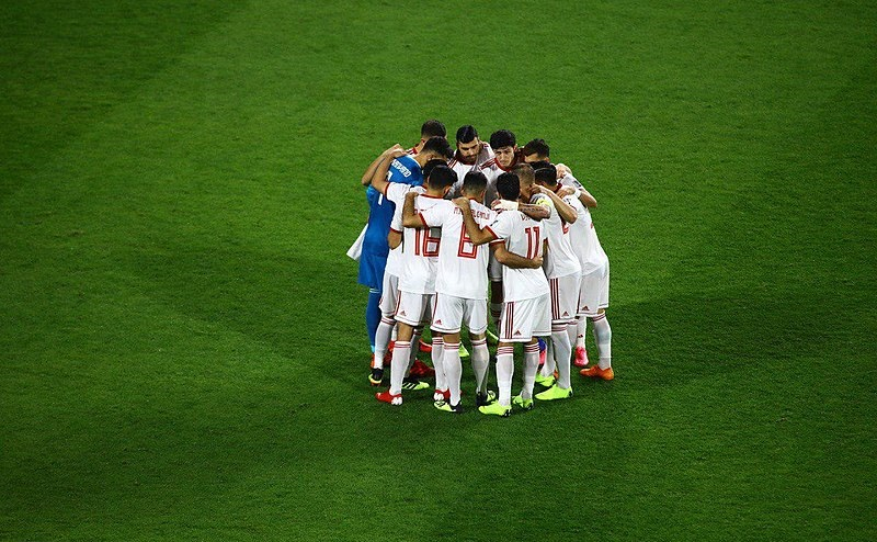 Iran & Yemen Group D match, 2019 AFC Asian Cup